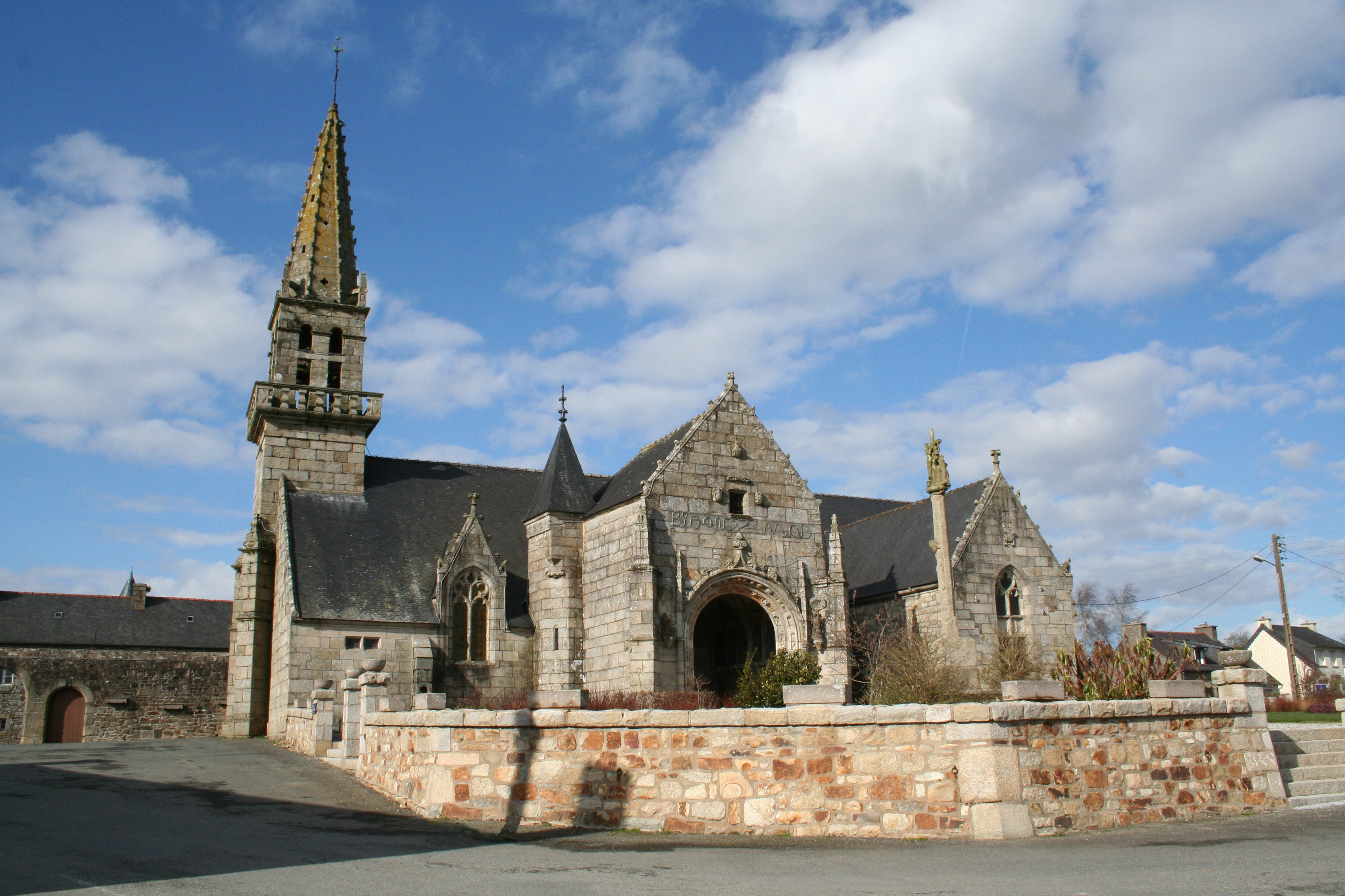 Church Notre-Dame de Grâces - Plusquellec - Côtes d'Armor - Brittany - France